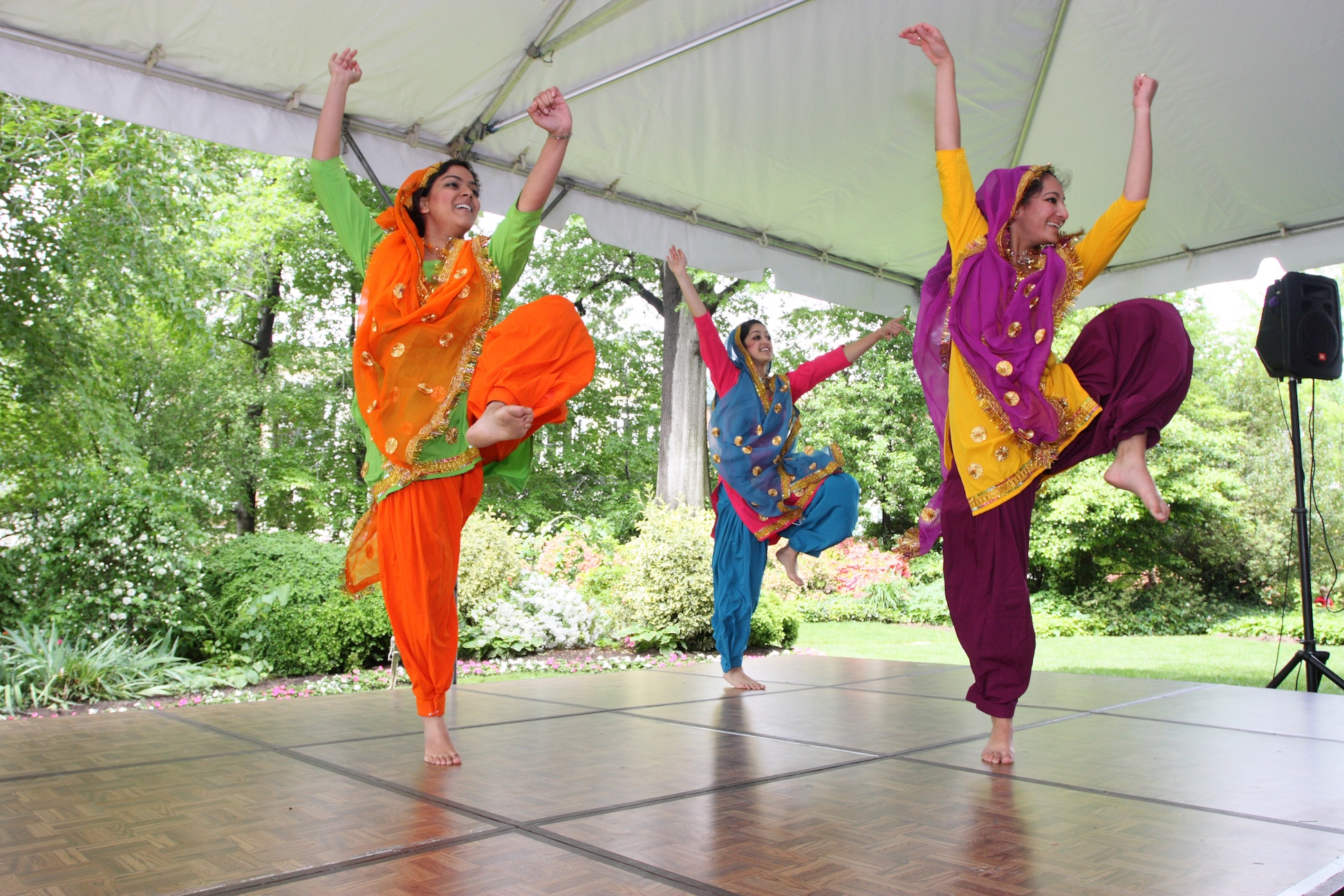 Indian Bhangra dancers- One of the many performances at the 2008 International Children's Festival